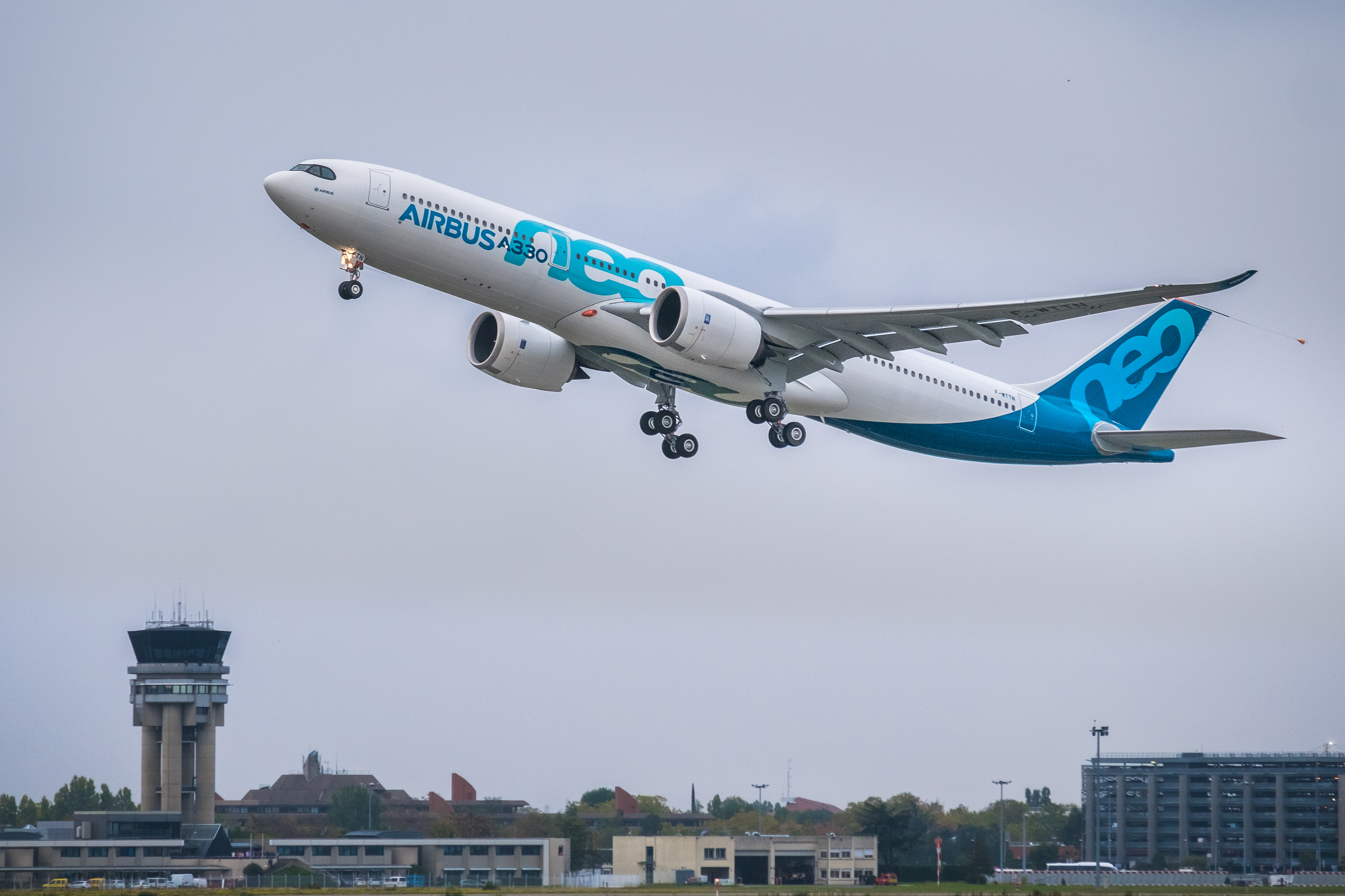 Airbus A330neo First Flight. 19 October 2017, Toulouse, France.